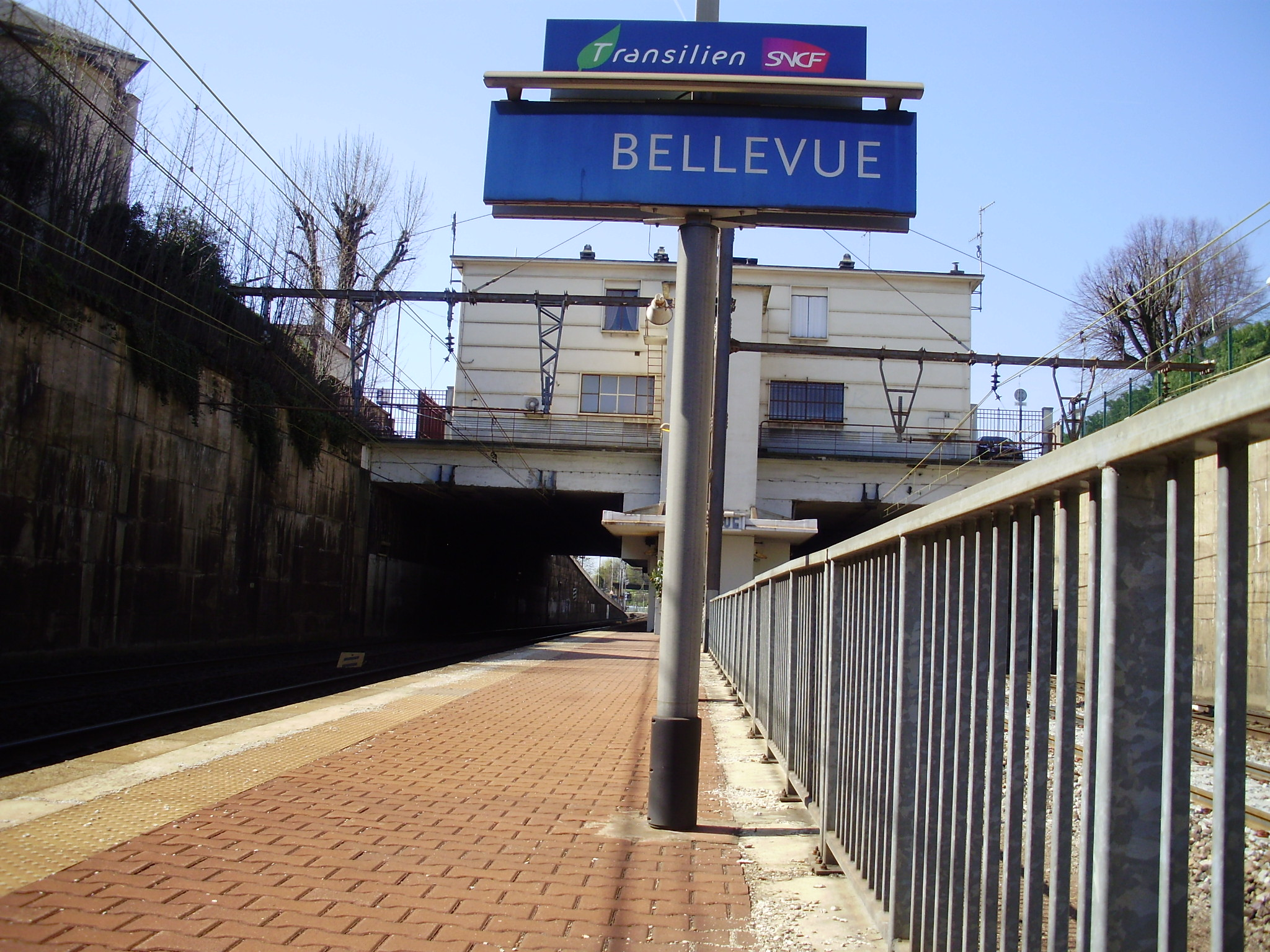 Bellevue station - panel, in Meudon, Hauts-de-Seine, France